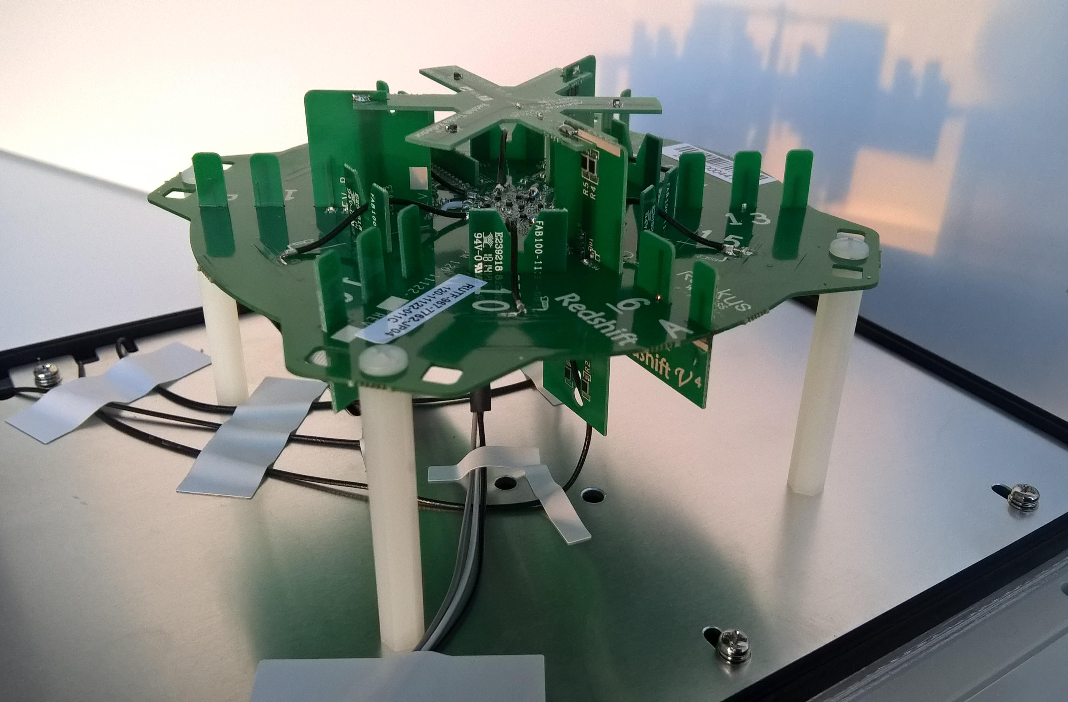 Antennas of Ruckus Wireless ZoneFlex 7762, outdoor access point, concurrent dual-band 802.11abgn, 3x3:2 streams, BeamFlex